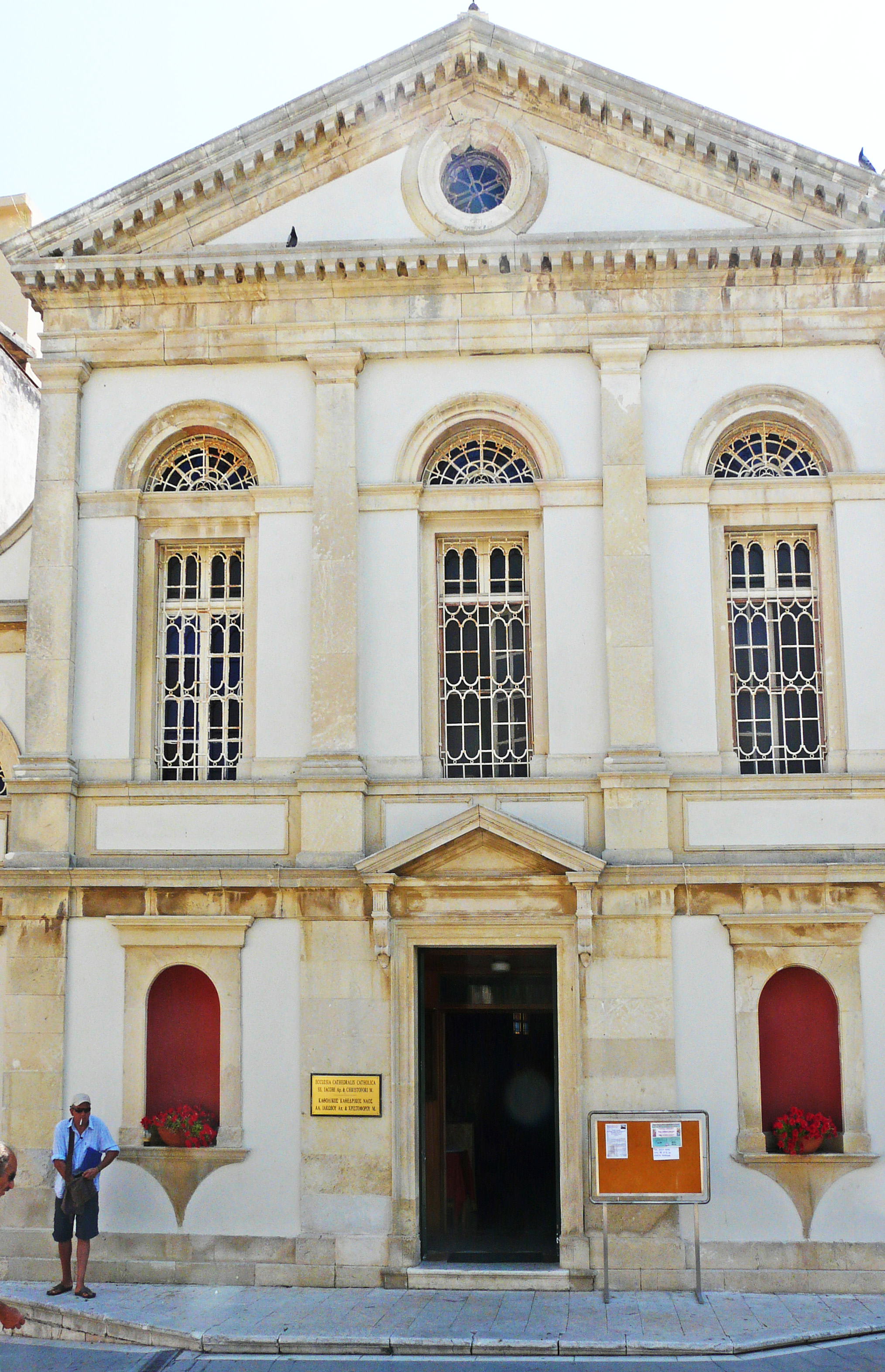 Corfu town.Corfu, Greece.